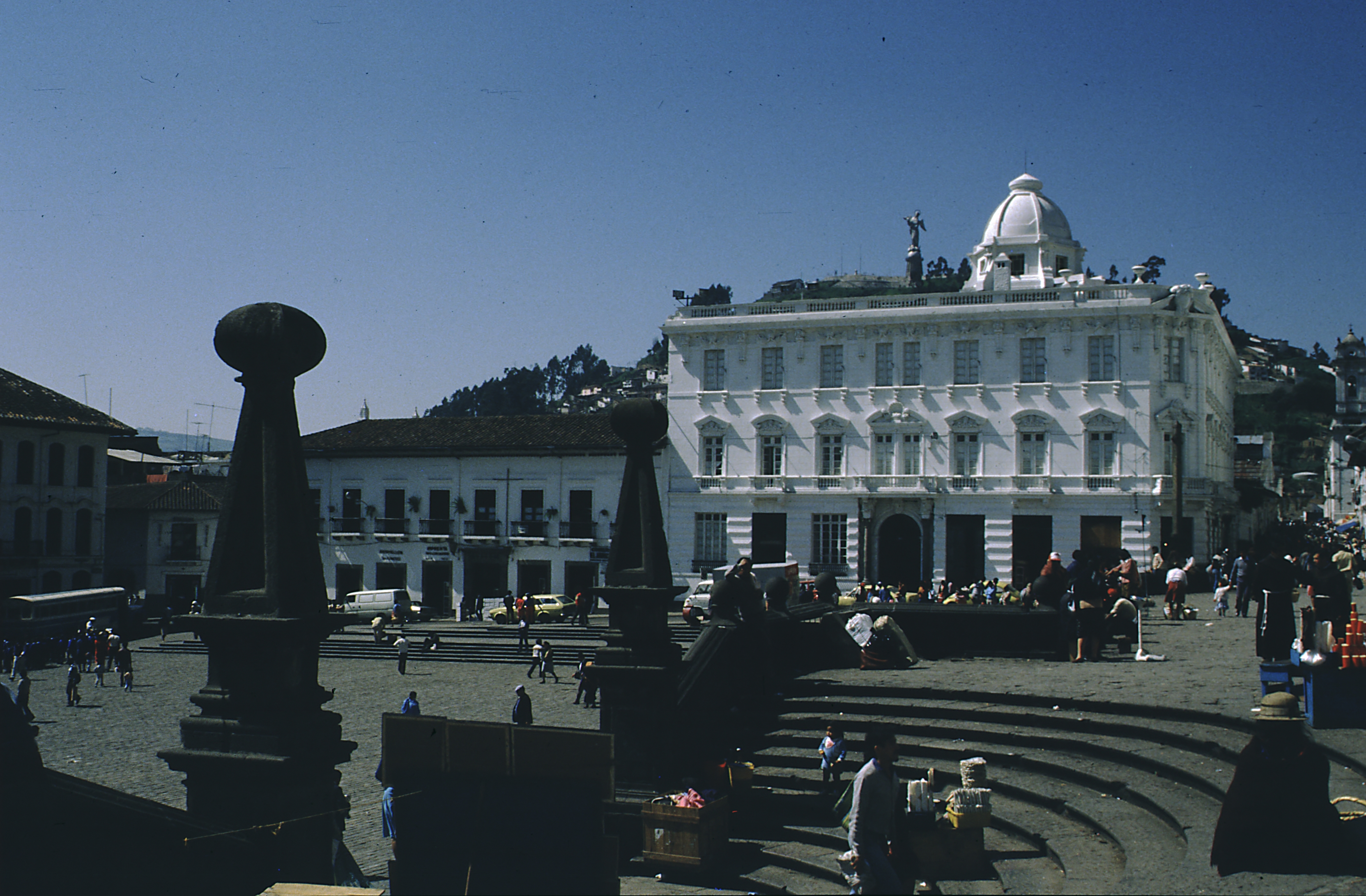 This photo has been scanned with a Reflecta DigitDia 6000 image scanner.